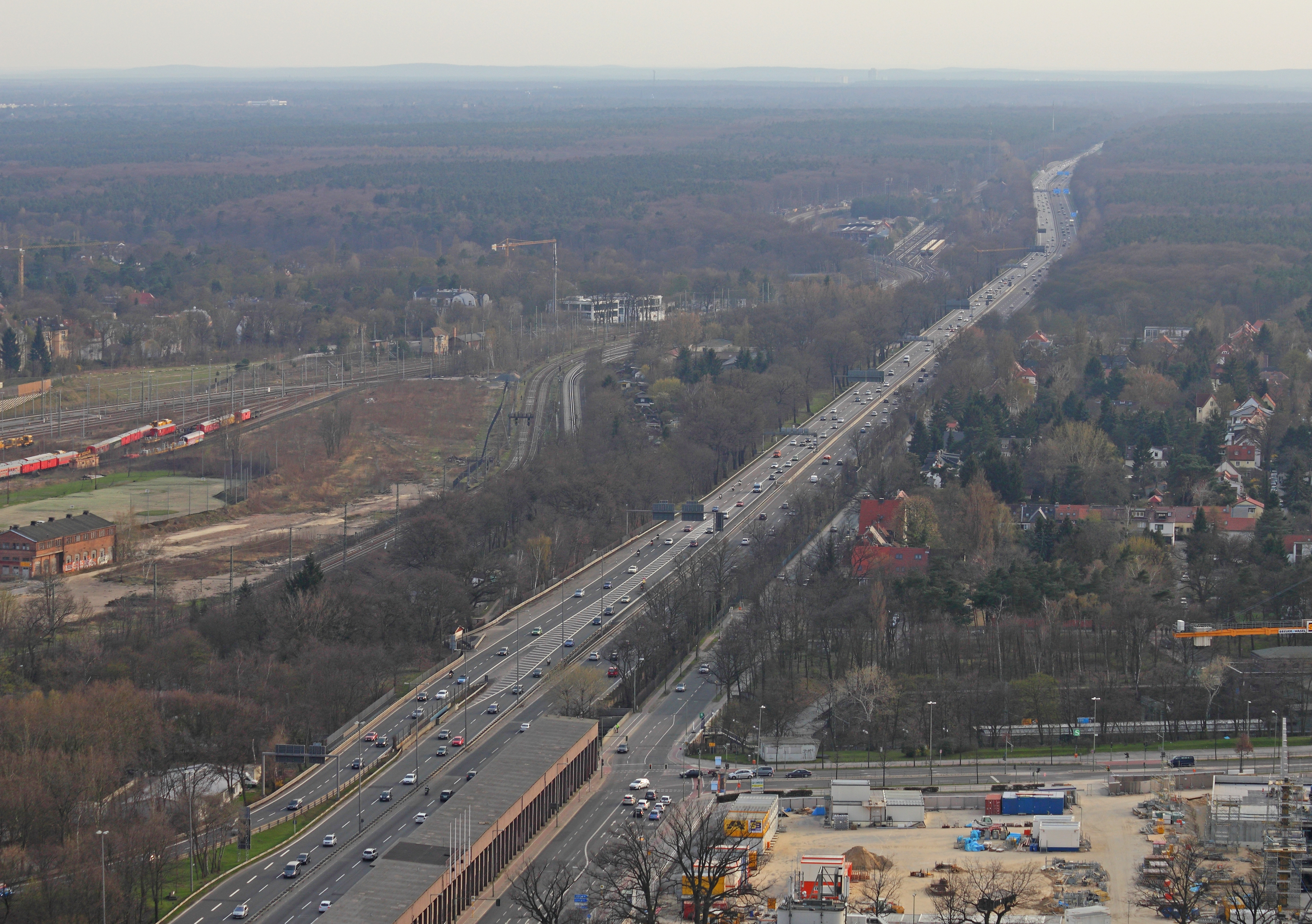 Berlin views from Radio Tower at the Trade Fair.